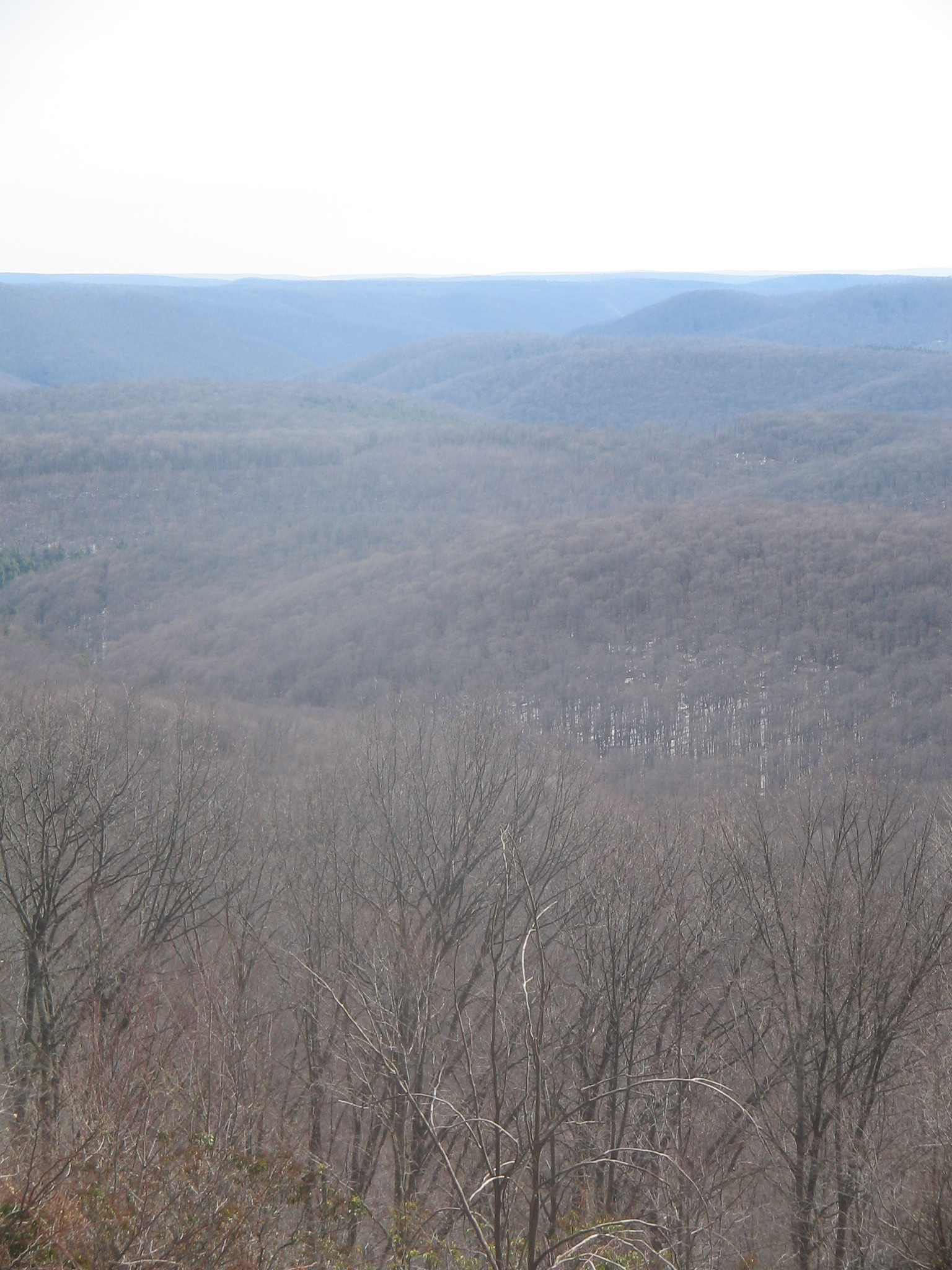 View of Susquehannock State Forest from Cherry Springs Vista from Pennsylvania Route 44, looking south from Abbott Township, Potter County, Pennsylvania, USA. This is about 2 miles south of Cherry Springs State Park, near the former Cherry Springs Fire Tower.